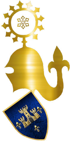 "The Coat of Arms of the Pavlović Family" Sulejmanagić, Amer (2012), journal Bosna Franciscana 36/2012: 165–206. (Grb Pavlovića - The Coat of Arms of the Pavlović Family - also in full html/pdf at ) Ćiro Truhelka, "Osvrt na sredovječne kulturne spomenike Bosne", GZM BiH XXVI – 1914, Sarajevo, 1914, 228 - 230. “Mi znamo, da se je vojvoda Radoslav Pavlović trsio, da njegov dvor u Dubrovniku bude što sjajniji a na svom grbu, što je imao da ukrasi ulaz, nije žalio potrošiti ni zlata ni lapis lazuli, najskupocjeniji slikarski materijali one dobe...” - Dr. Ćiro Truhelka, "Osvrt na sredovječne kulturne spomenike Bosne", p.229. "The Palace of Duke Sandalj Hranić in Dubrovnik"(html/pdf), by Nada Grujić, Danko Zelić, Anali Zavoda za povijesne znanosti Hrvatske akademije znanosti i umjetnosti u Dubrovniku, No.48, July 2010, Dubrovnik; (Državni Arhiv Dubrovnik) DAD Div. Canc. sv.44, f. 147r; 31.V.1427 “Duos cimerios de arma" koje je 1427. god. Ratko Ivančić klesao za Radoslavljevu palaču bili su dimenzija 2,5 lakta po visini i širini (1,28 x1,28 m)”